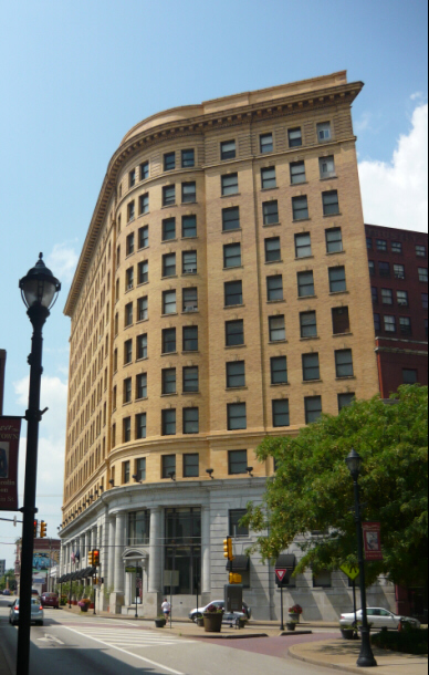 Fayette Building, originally First National Bank, 50-52 West Main Street (intersection of Pittsburgh Street), Uniontown, Pennsylvania. Architect: Daniel Burnham. Built: 1901-1902. Part of the Uniontown Downtown Historic District.